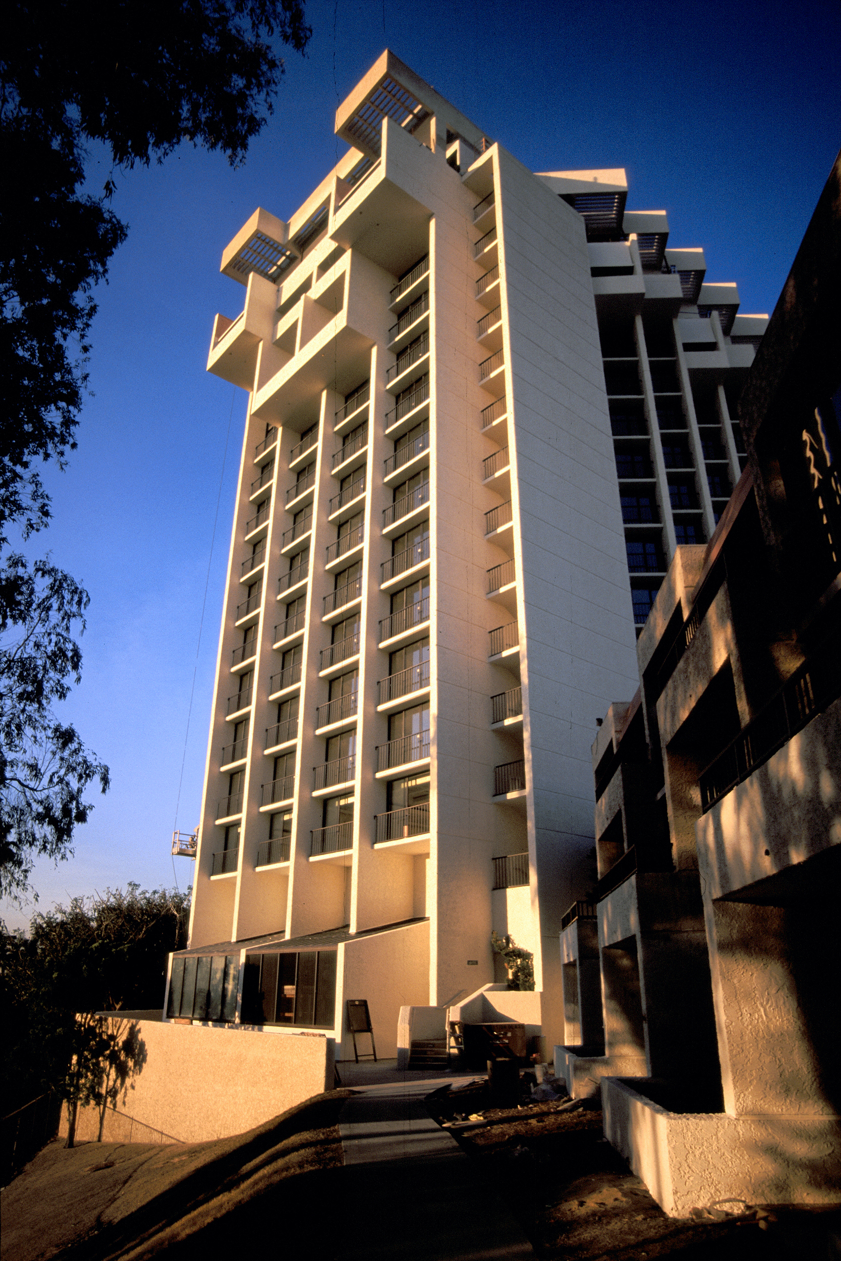 Newport Marriott Hotel, West Tower, under renovation in 2005